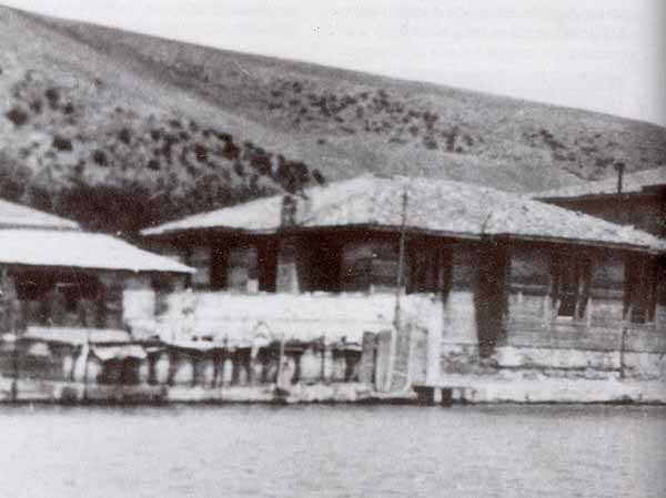 it is an image belongs to Beşiktaş ( Bahariye) mevlevihouse established in 1613 and demolished in 1900's